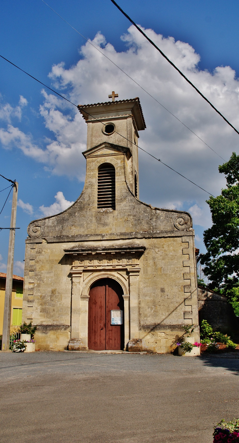 St. Martin's Church in Flaujagues, France